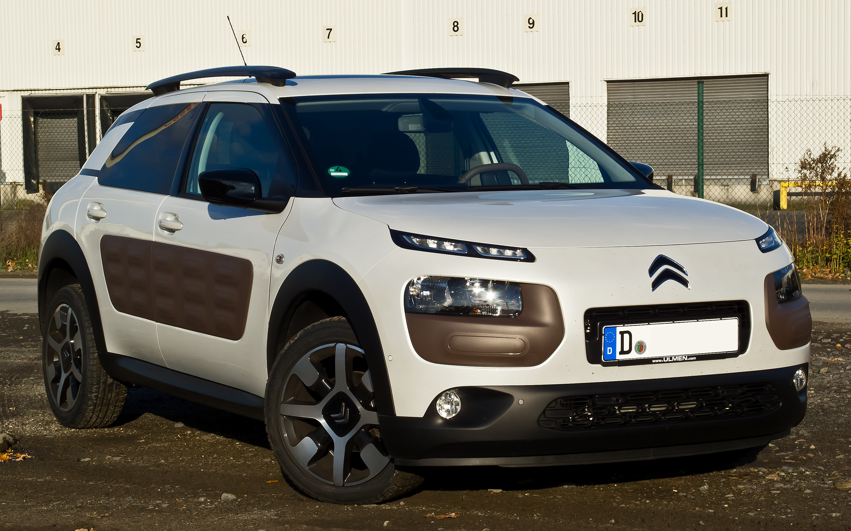 Citroën C4 Cactus BlueHDi 100 Shine Edition